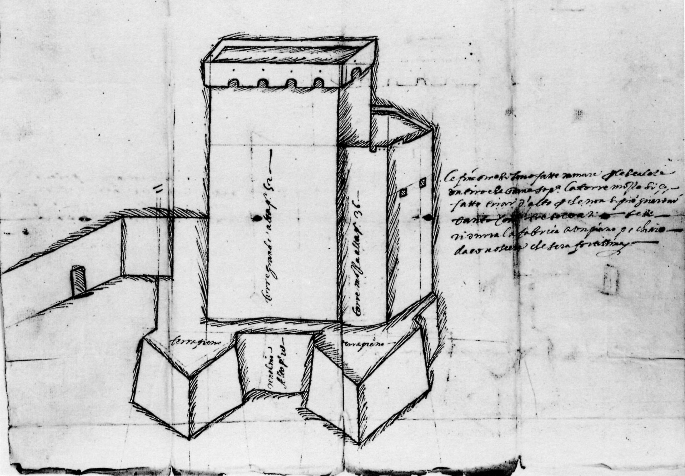 Drawing of the proposed Tour de Girolata, Corsica